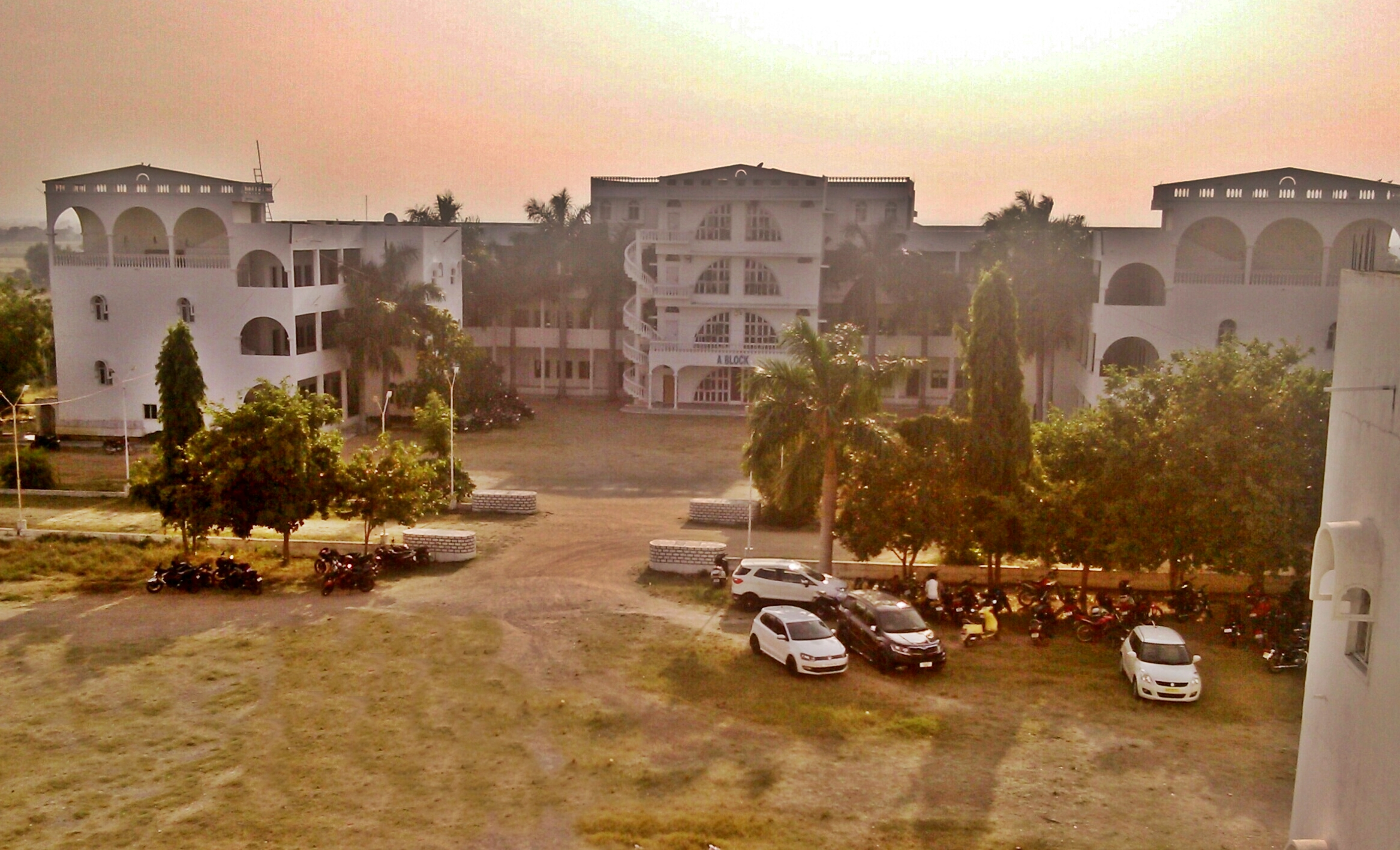 Block A,VREC,Nizamabad Other information No